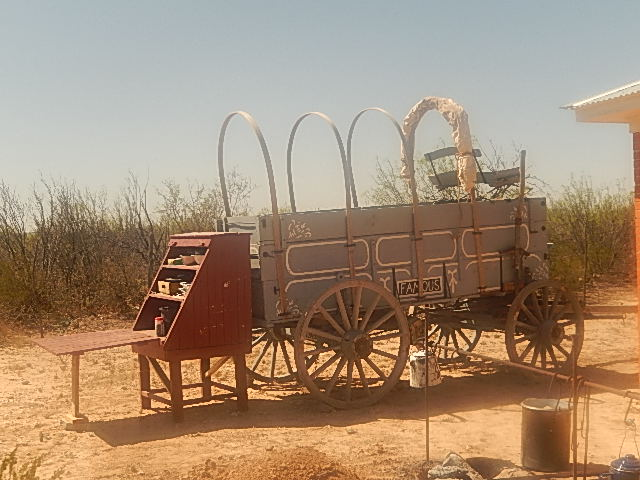 I took photo of chuckwagon in Girvin, TX, with Nikon camera.